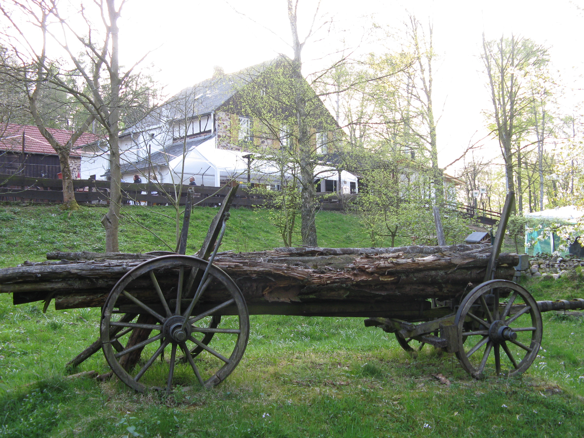 Kühkopf forest restaurant, mountain near Koblenz, Germany